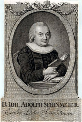 Potrait of Johann Adolph Schinmeier, engraving